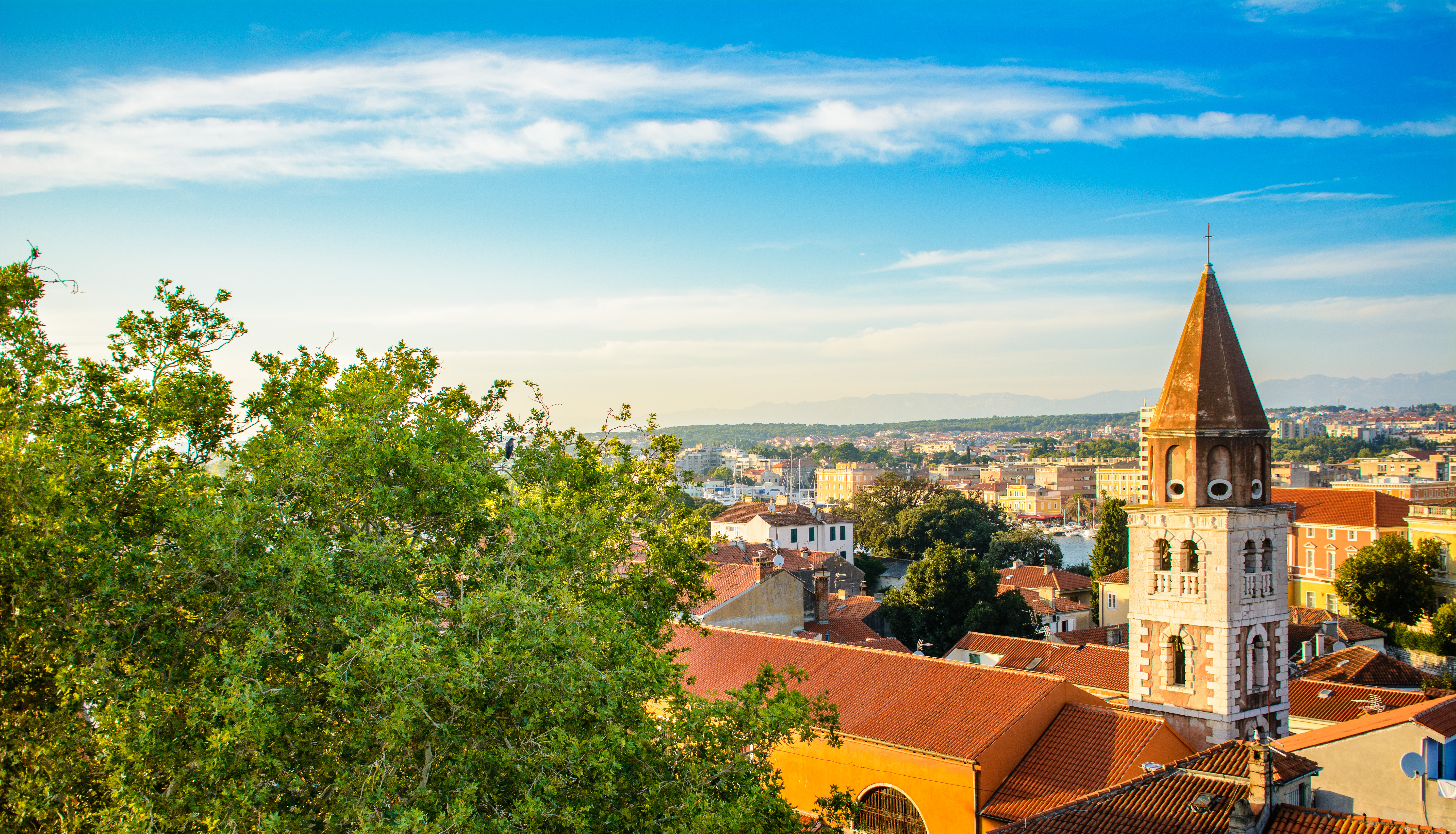 View of Zadar and its old town from the top of the Captain's Tower